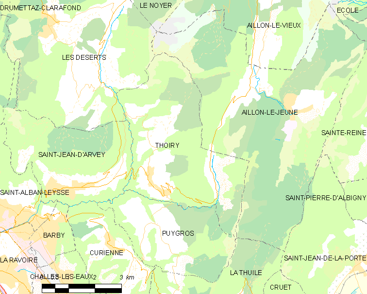 Map of French municipality Thoiry